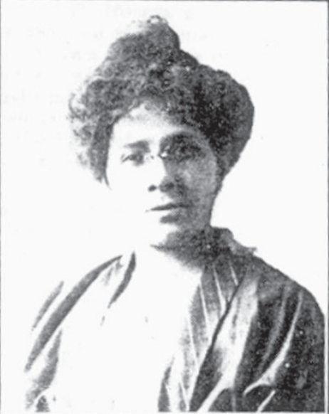 Mrs. Hettie B. Tilghman, President of California Federated Women's Clubs, as pictured in The Negro Trail Blazers of California (Beasley 1919:166).